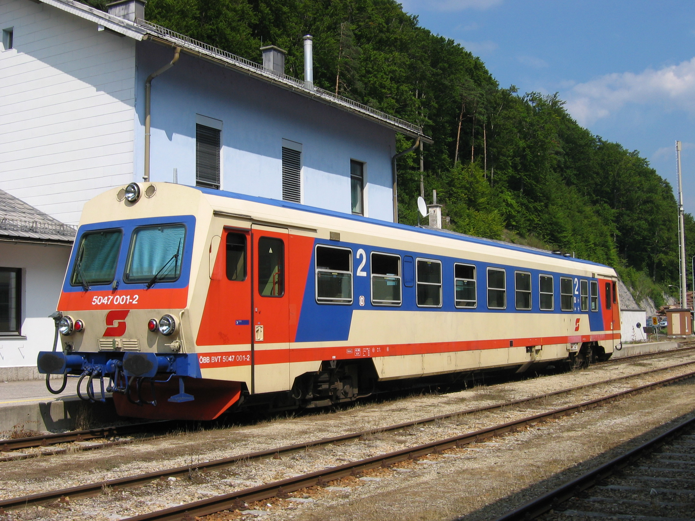 ÖBB 5047 001-2 at Kienberg-Gaming station, Lower Austria. The DMU is still carrying its original livery from 20 years ago when it was delivered.